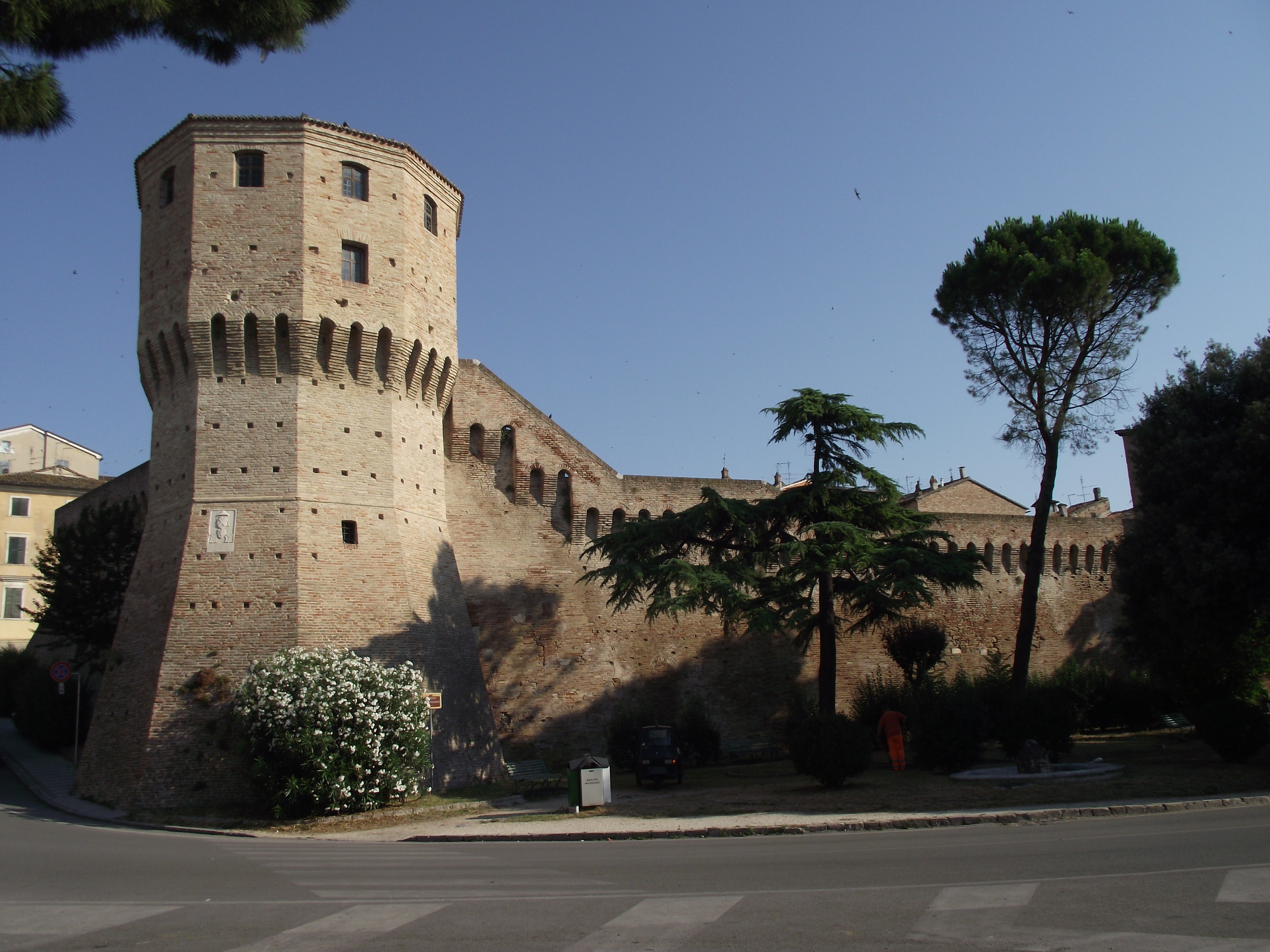 Jesi, Southern Tower, Baccio Pontelli, 1454